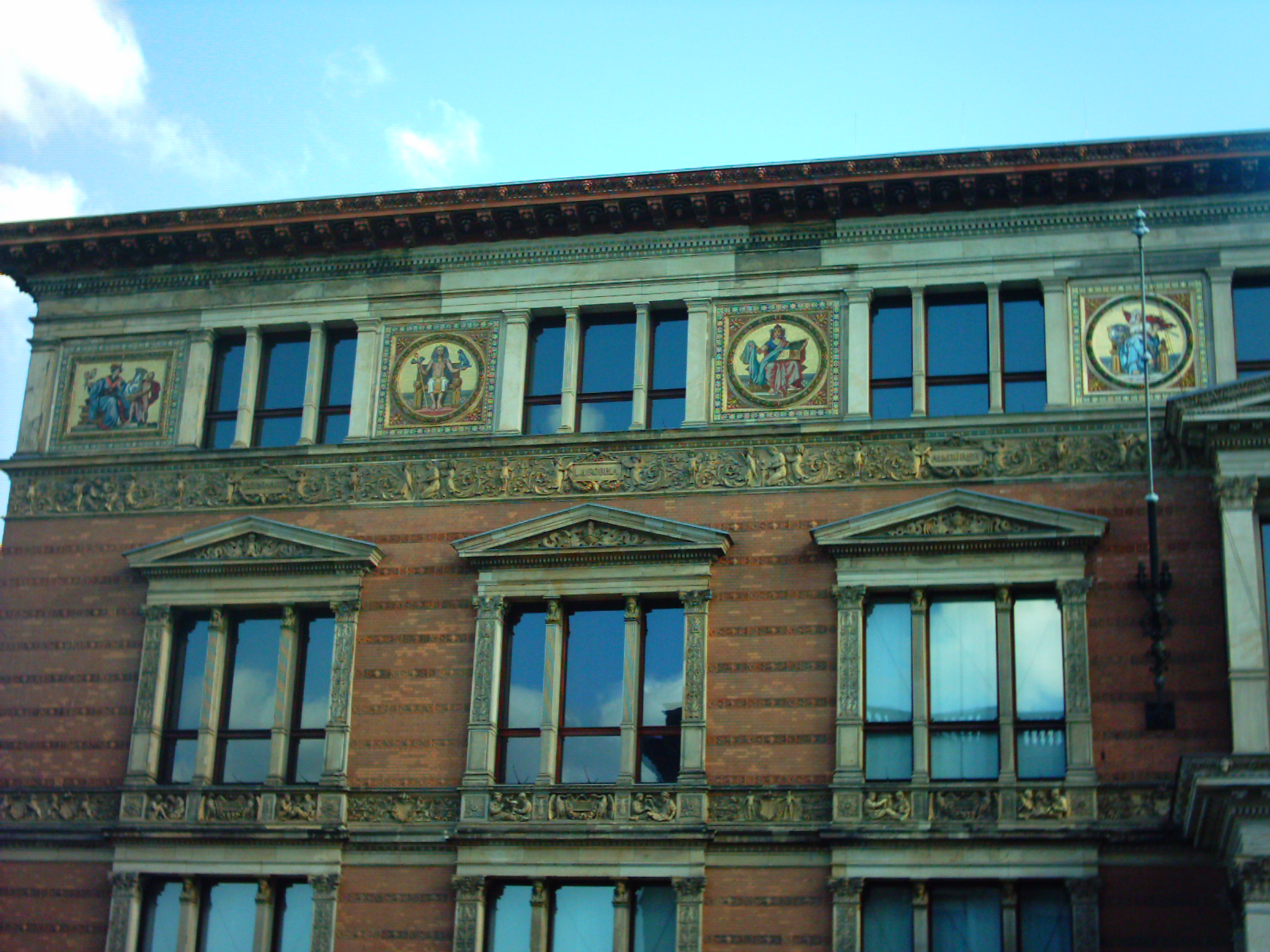 Martin-Gropius-Bau: gable view